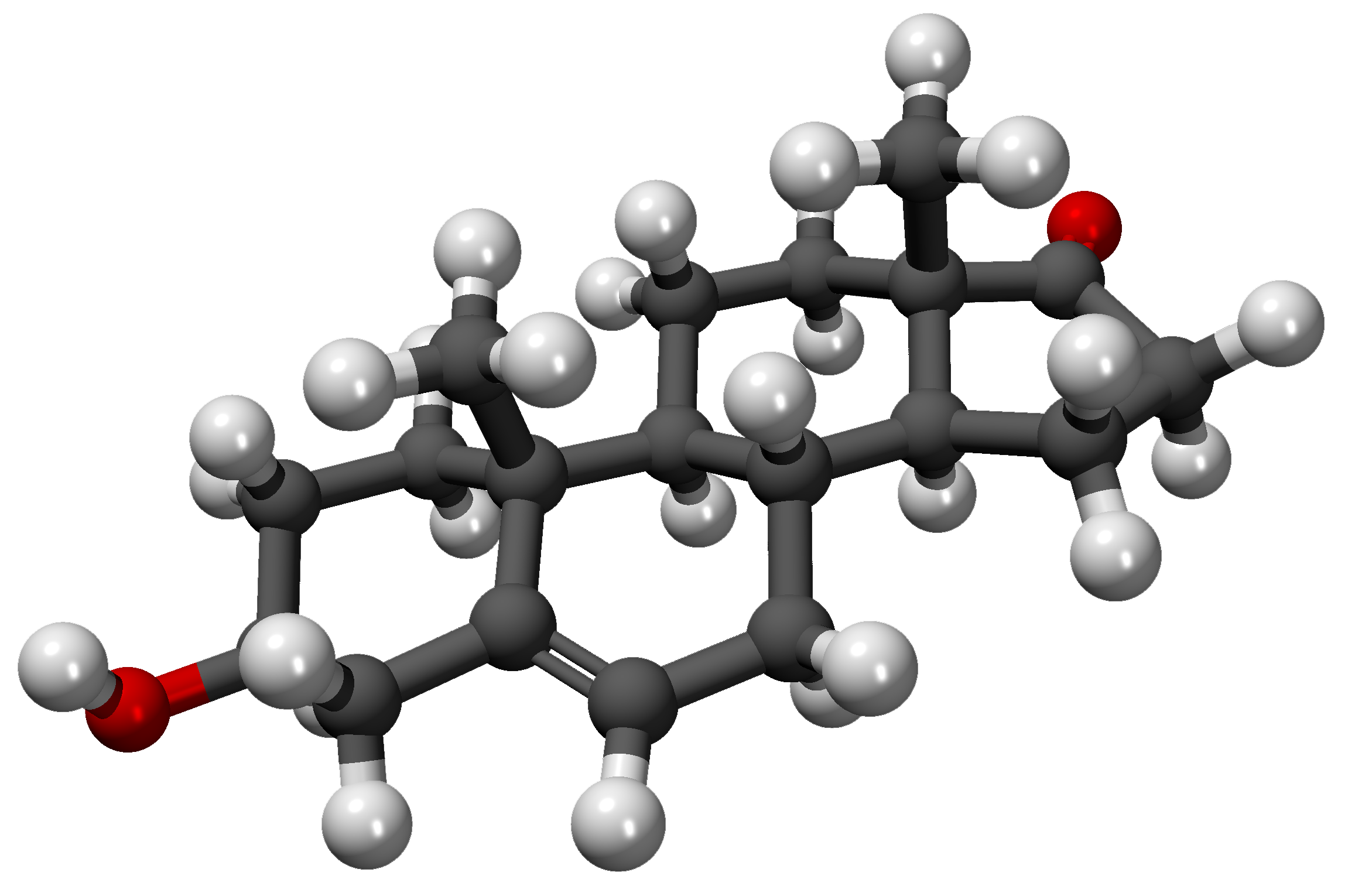 Ball-and-stick model of the Dehydroepiandrosterone molecule C19H28O2. Model constructed using ACD/ChemSketch and Accelrys DS Visualizer.